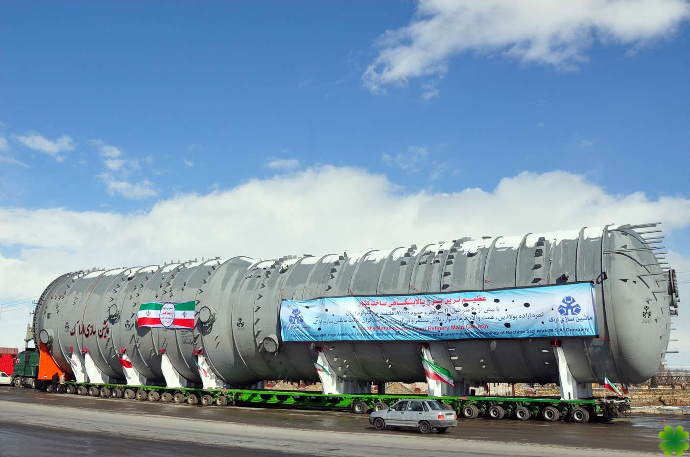 A giant distillation tower has been manufactured by Machin Sazi Arak company. About 10 million euro was spent on the tower and it has been installed in Imam Komeini Oil Refinery Company of Shazand.